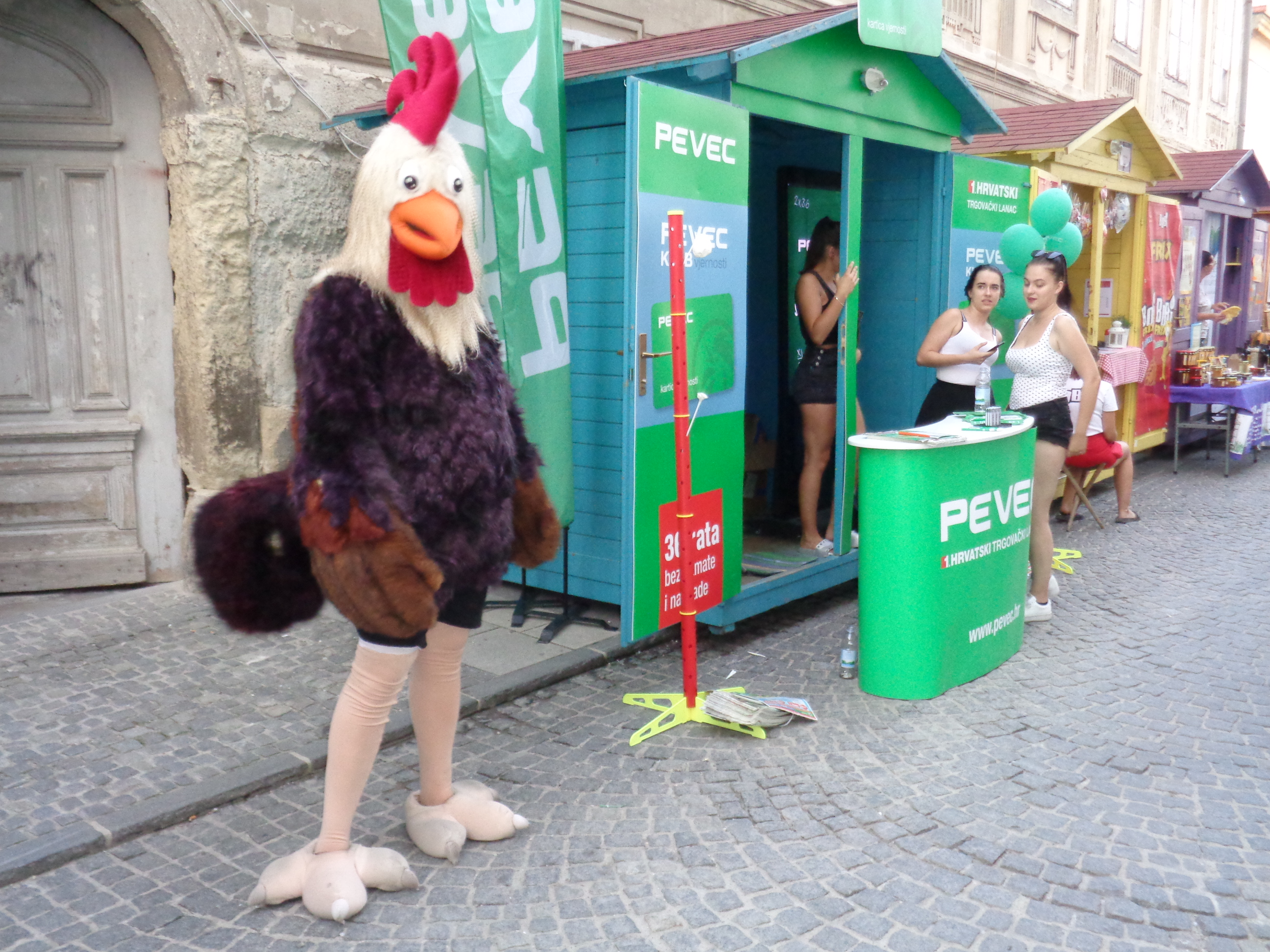 "Špancirfest" street festival, Varaždin, Croatia (2018) - greenblue exhibition booth with a mascote